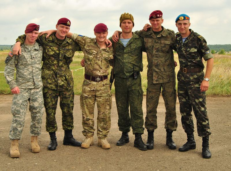 YAVORIV, Ukraine -- Paratroopers from (left to right) the U.S. Army, Canada, the United Kingdom, Belarus, Poland and Ukraine embrace for a photograph to commemorate an event they won't soon forget: Rapid Trident 2011. Rapid Trident 2011 is a U.S. Army Europe led, multi-national exercise taking place at the International Peacekeeping and Security Center in Yavoriv, Ukraine. It is designed to promote regional stability and security, strengthen international military partnering and foster trust while improving interoperability between participating nations. Rapid Trident 2011 involves approximately 1,600 personnel. In addition to the U.S. Army Europe and Ukraine, participants include: Latvia, Belarus, Moldova, Slovenia, Canada, Poland, Serbia, the UK, Lithuania, Estonia, California and Utah National Guard and U.S. Air Force Europe. Rapid Trident supports interoperability among Ukraine, the United States, NATO and Partnership for Peace member nations. This exercise will help prepare participants to operate successfully in a joint, multinational, integrated environment with host- nation support from civil and governmental agencies. Rapid Trident is a part of U.S. European Command’s Joint Training and Exercise Program, designed to enhance joint combined interoperability with allied and partner nations. The exercise also supports Ukraine’s Annual National Program to achieve interoperability with NATO and commitments made in the annual NATO-Ukraine work plan.